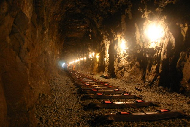 WHR Railway Tunnel Twnel Hir (long tunnel) on the Welsh Highland Railway between the Aberglaslyn Pass and Nantmor. This was taken during re-laying of the tracks.